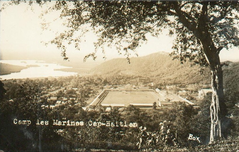 View of the Marines' base at Cap-Haïtien at the time of the American occupation. Real photo postcard probably issued in the 1920s.